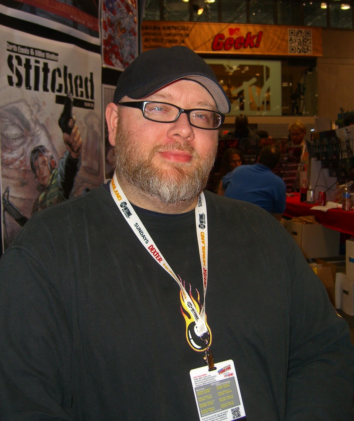 Comics creator Jacen Burrows on Day 4 of the 2012 New York Comic Con, Sunday October 14, 2012 at the Jacob K. Javits Convention Center in Manhattan. This photo was created by Luigi Novi. It is not in the public domain, and use of this file outside of the licensing terms is a copyright violation.